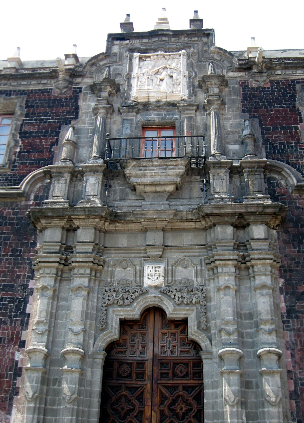 Baroque facade and portal to the Colegio Grande, of San Ildefonso College — located in the historic center of México City, México.